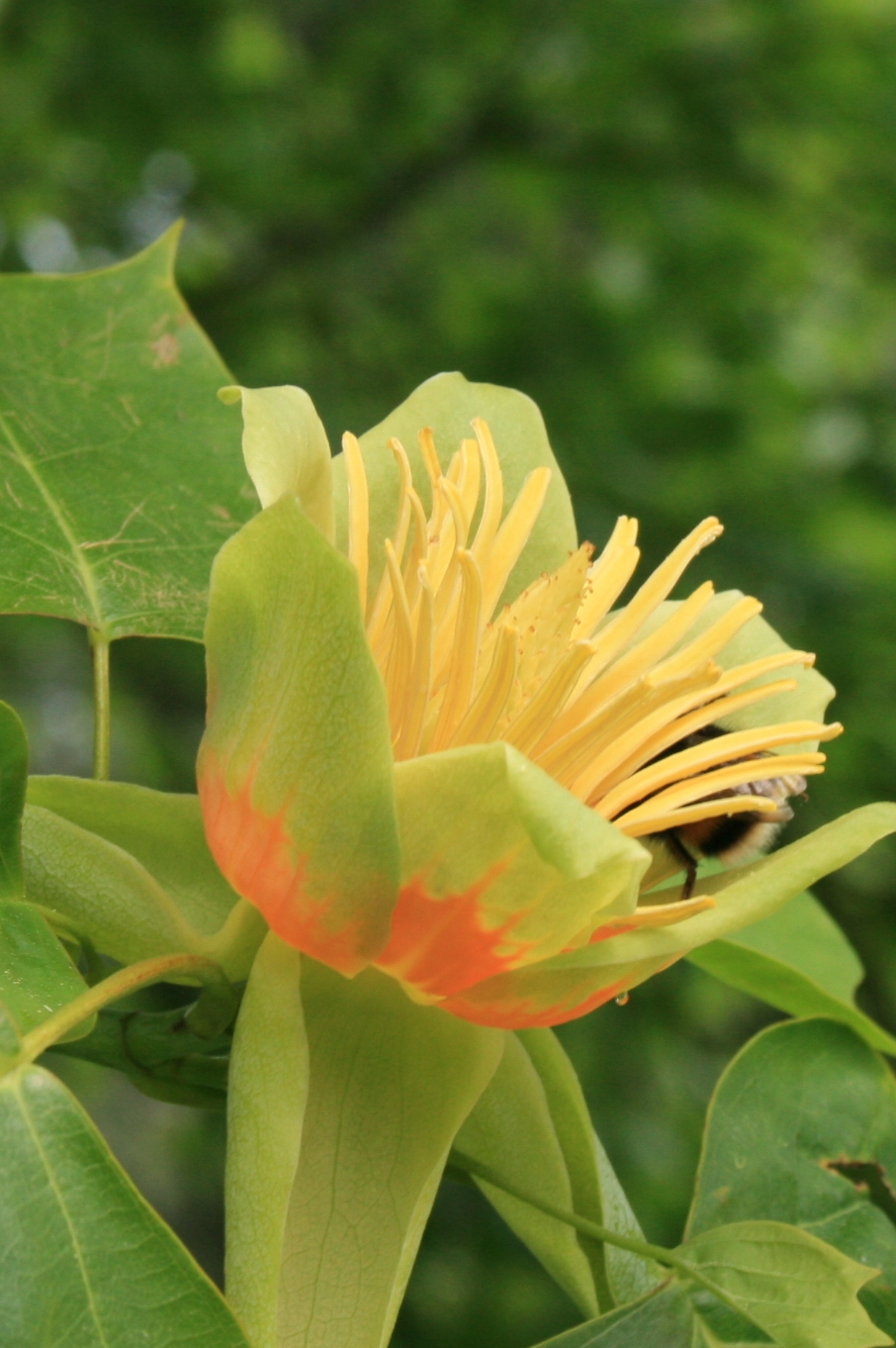 Liriodendron tulipifera: Flower. Kew Garden.